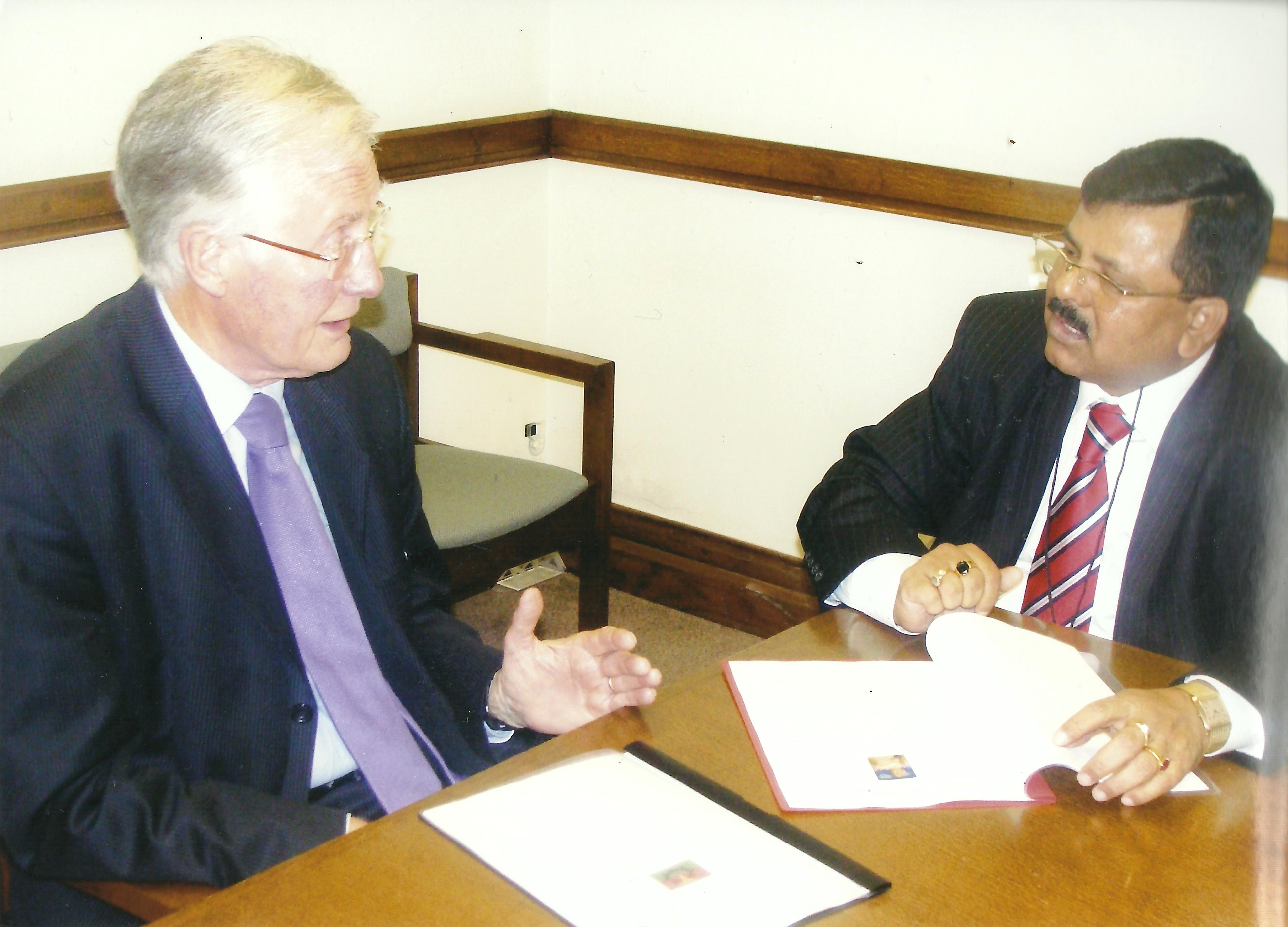 Ilias Ali meets British MP Michael Meacher.